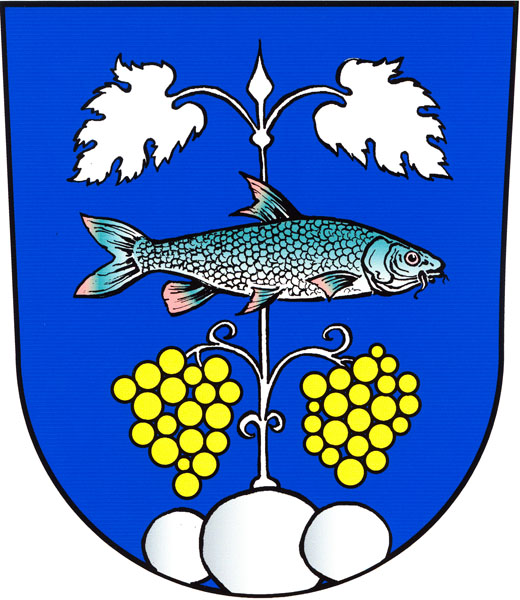 Municipal coat of arms of Pavlov village, Břeclav District, Czech Republic.